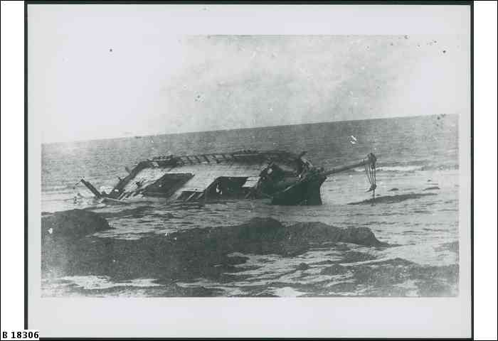 Shipwreck, Arno Bay, Wreck of the Post Boy, ca.1920; State Library of South Australia image B18306